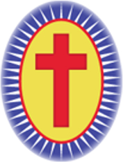 Coloured print with the emblem of Camillians, Order of Regular Clerics Ministers to the Sick